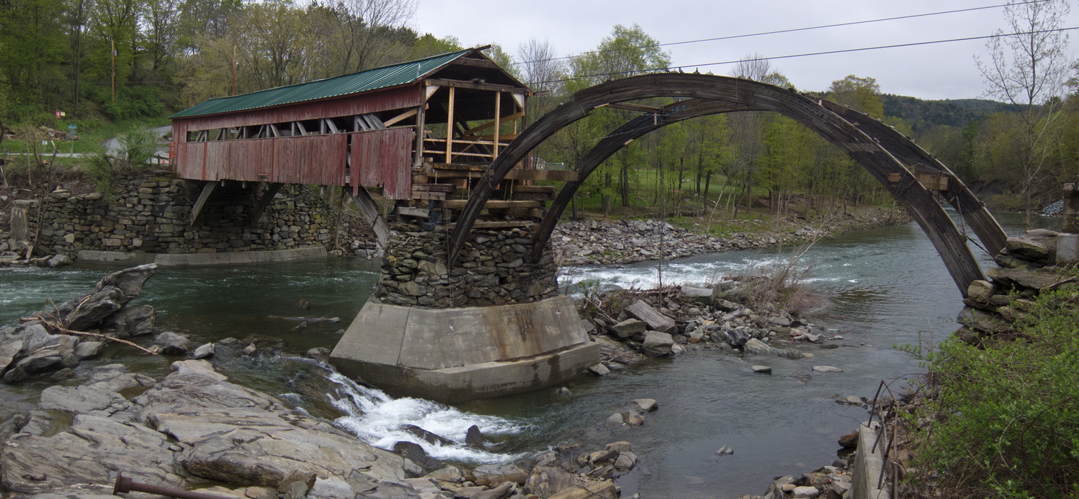 Damage caused by flood waters from Tropical Storm Irene (2011-08-28) on the Ottauquechee River in Taftsville, Vermont, which scoured the approach to the covered bridge on the northern shore of the river, as of 2012-05-03.